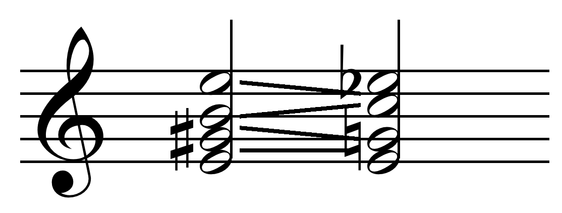 Created by Hyacinth (talk) using Sibelius 5.